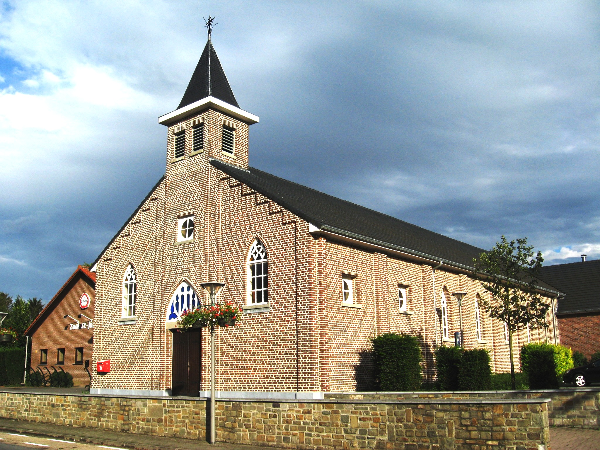 Church of Saint Joseph in Bilzen, Limburg, Belgium